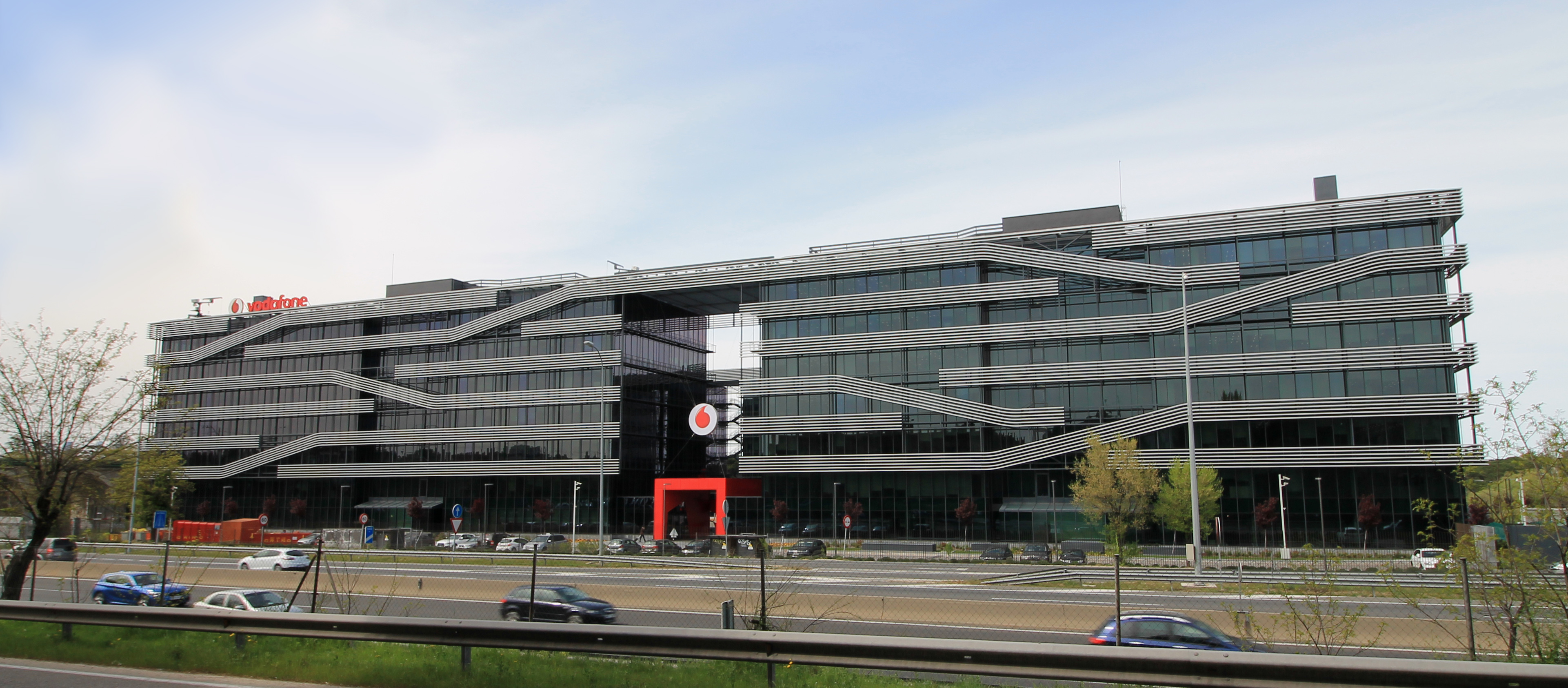 South façade of Vodafone offices in Madrid (Spain).